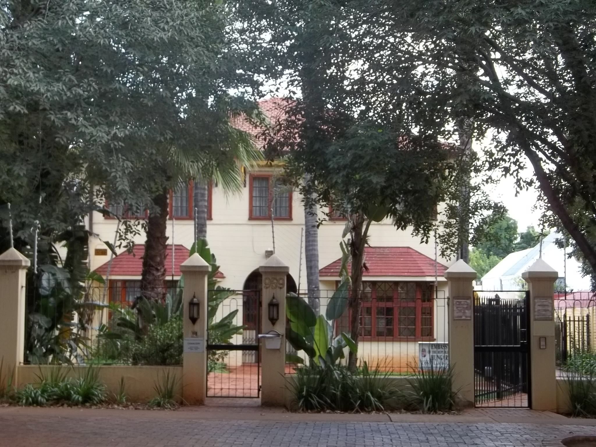 MG in ZA